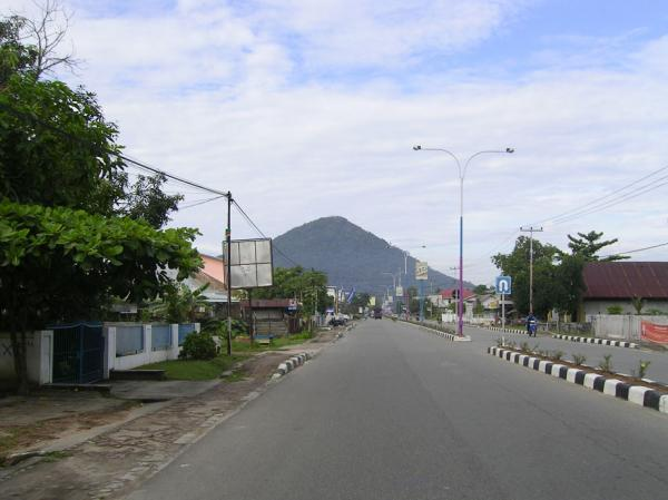 Singkawang photo, taken in 2007.